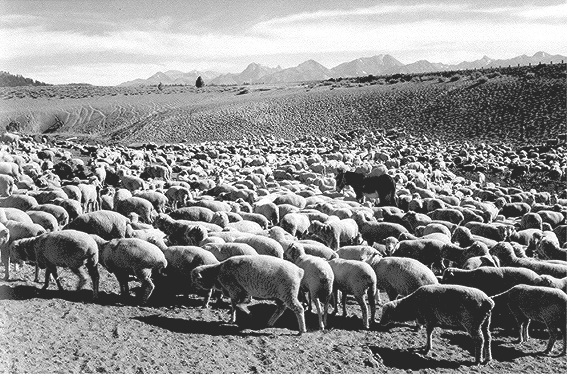 Description Ansel Adams: Flock in Owens Valley (1941) Date1941Source 16:46, 16 May 2008 (UTC) Ansel Adams: Flock in Owens Valley (1941)